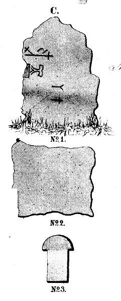 The Nokia Stone, a medieval grave slab with inscriptions at Nokia Manor in South Finland. The drawing was made by Daniel Skogman in 1864.